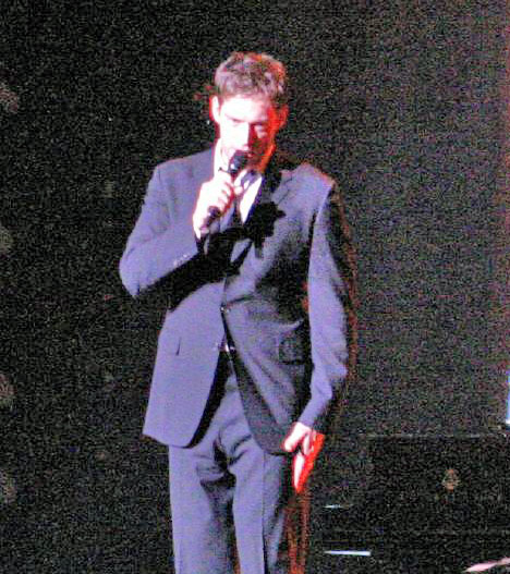 Harry Connick Jr at the Johnny Mercer Theather, grand piano by Steinway & Sons, Savannah, Georgia Feb 27, 2007 (a) cropped